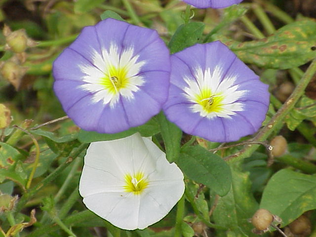 Species: Convolvulus tricolor Family: Convolvulaceae Image No. 2